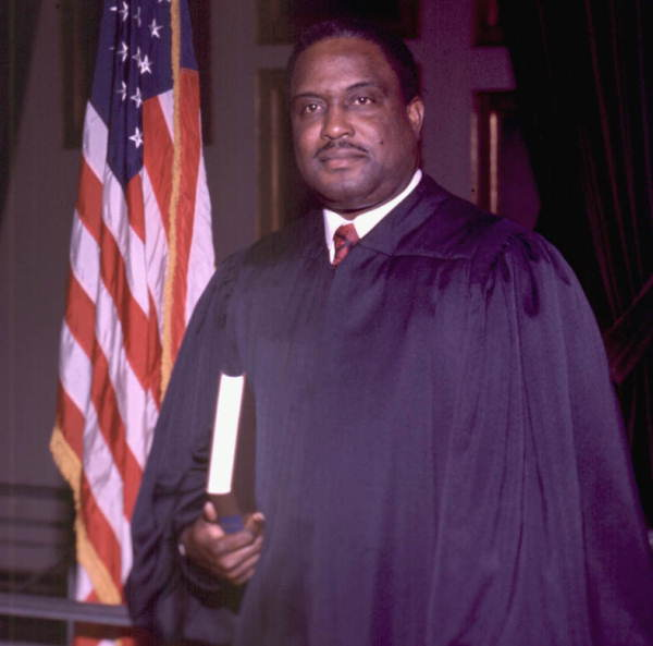 Florida Spureme Court Justice Joseph W. Hatchett